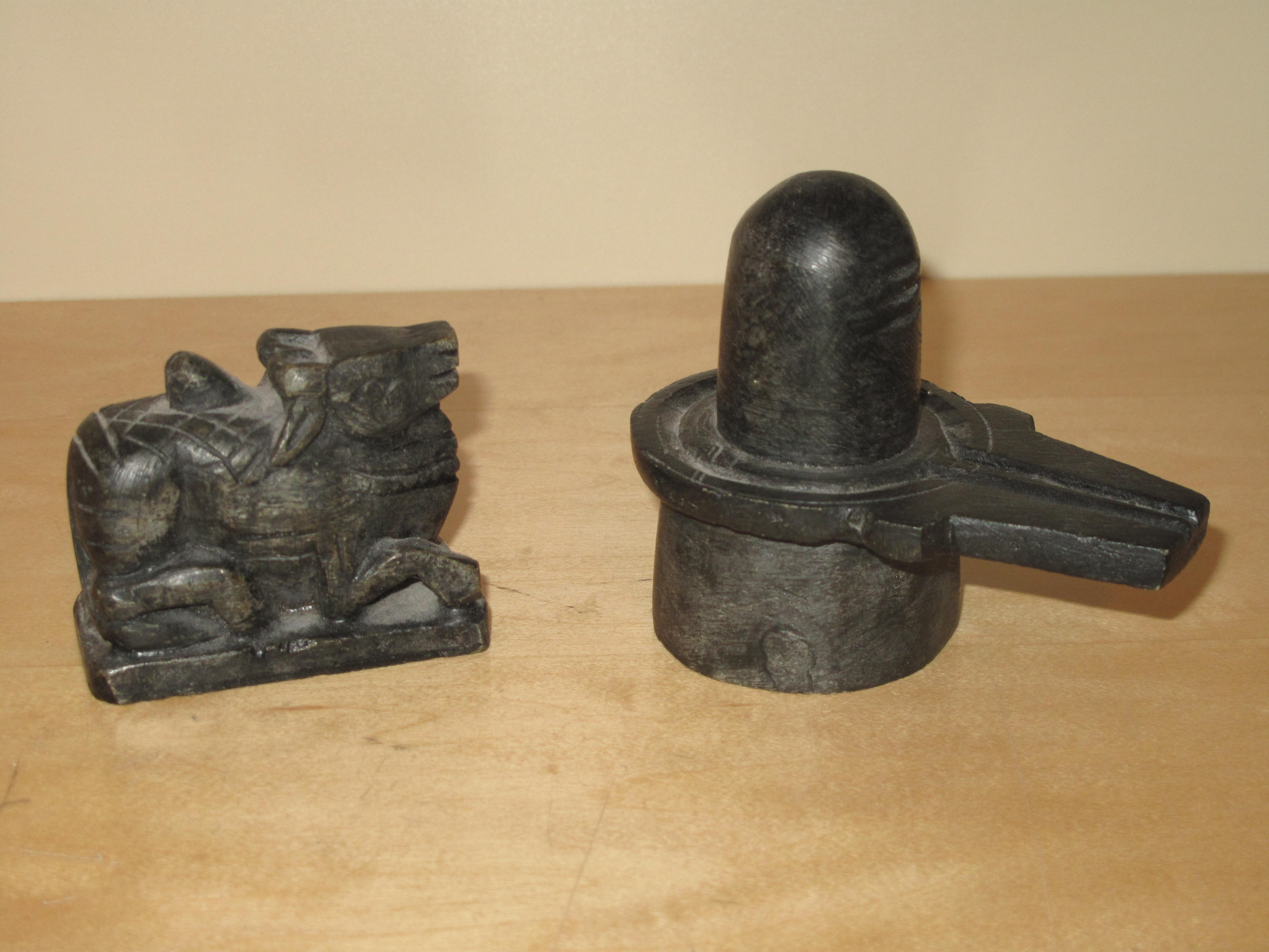 Lingam and the bull Nandi. Small sculptures in soapstone from India. On the lingam, the tripundra sign. Nandi : Length : 7 cm ; width : 3.4 cm ; height : 5.5 cm ; Lingam : diameter : 6 cm ; height : 5.5 cm ; Length : 7 cm